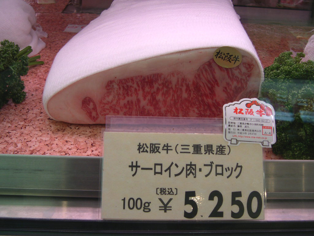 Matsusaka sirloin for sale in Nihonbashi Mitsukoshi food hall, Tokyo, Japan. ¥5,250/100g = ~$53 USD/100g (~$240 USD/lb) ca. 2008